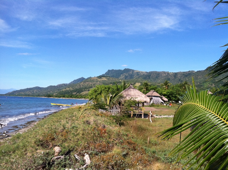 Huts at the coast of Atauro